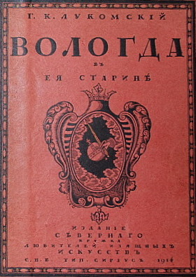 Vologda in its antiquity, by G. K. Lukomsky. Book cover.